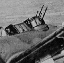 Bouton Paul Mk1 Defiant turret.